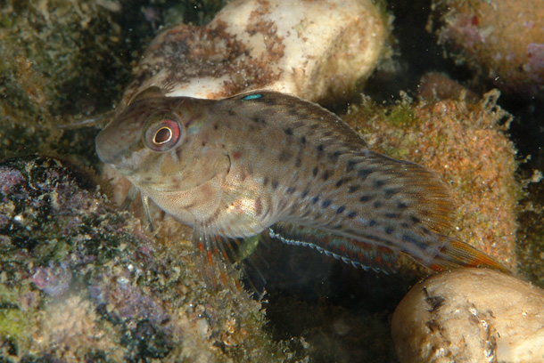 Parablennius sanguinolentus photographed in Tuscany (Italy) Photo by Stefano Guerrieri